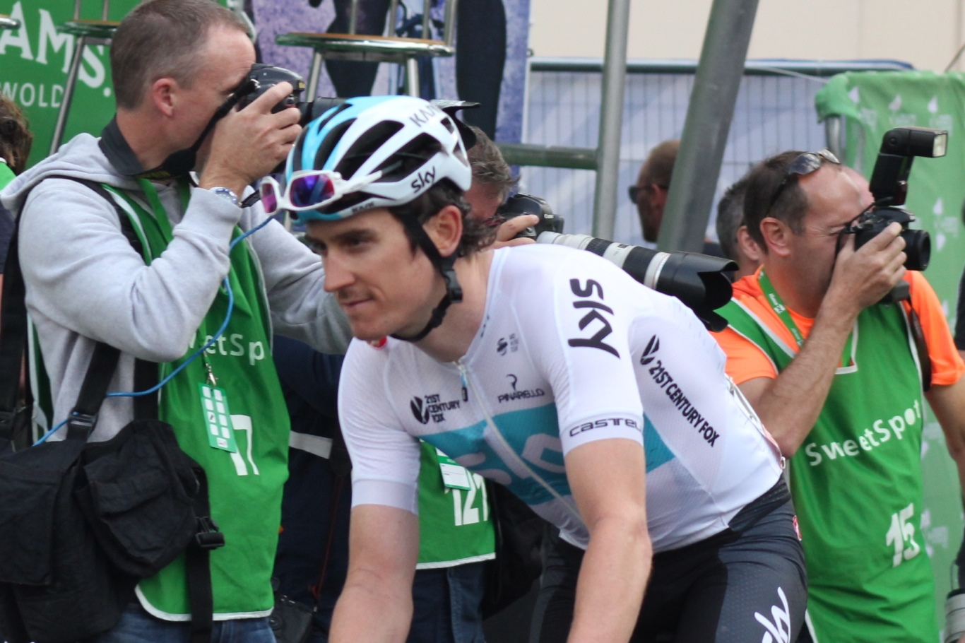 The 2018 Tour of Britain has just finished in London; Geraint Thomas cycles back to the team bus past applauding fans and photographers.